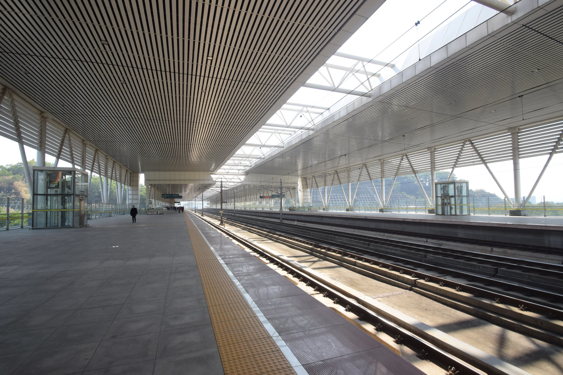 Guangzhou-Shenzhen-Hong Kong High-Speed Railway Platforms of Guangmingcheng Railway Station, view towards Shenzhen Bei (North) Railway Station